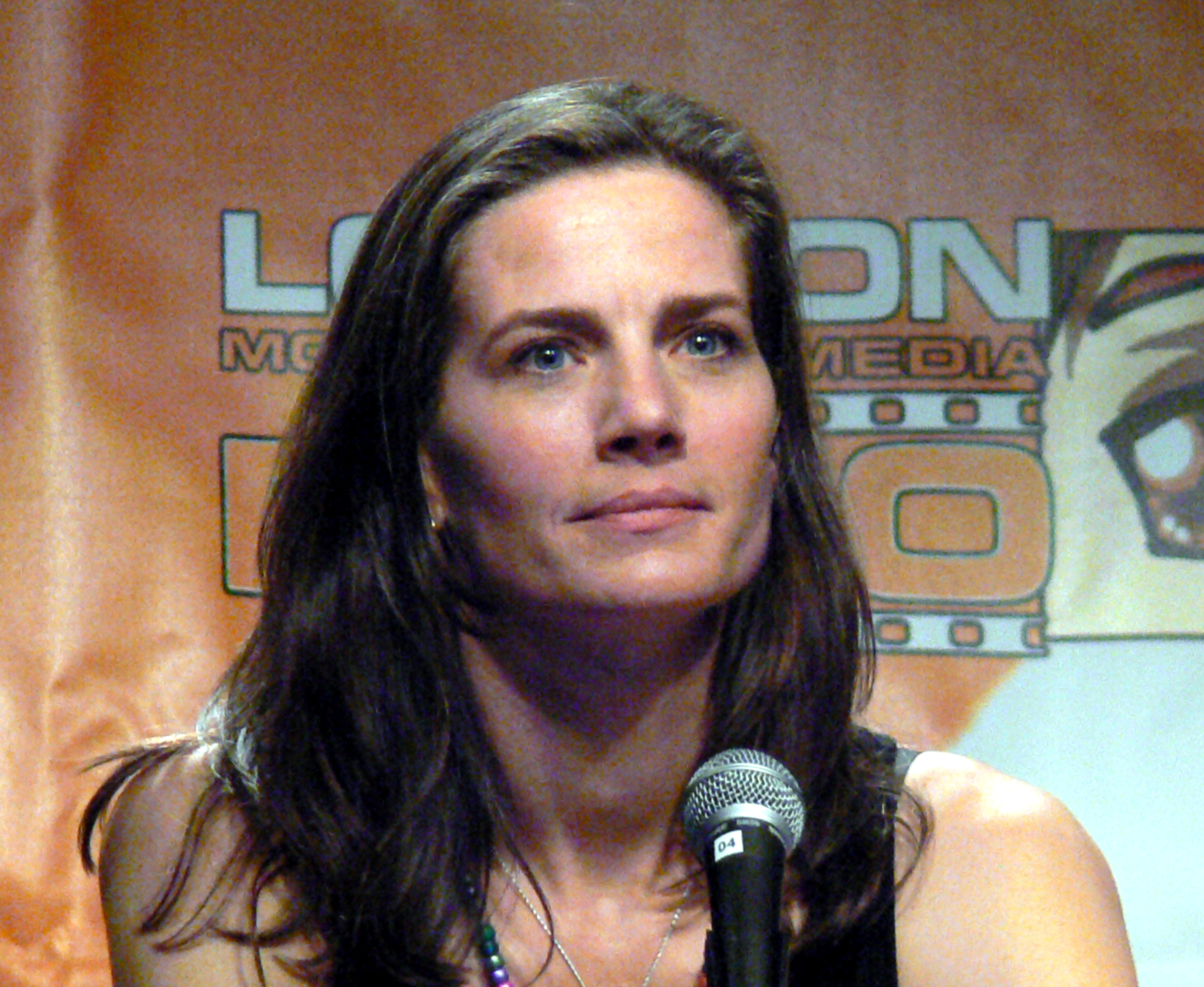 Actress Terry Farrell on stage at the October 2009 London Expo. She played the role of the Trill Starfleet science officer Jadzia Dax on Star Trek: Deep Space Nine for 6 straight years from 1993 to 1998 and then as Regina Kostas in the TV sitcom Becker from 1998 to 2002.